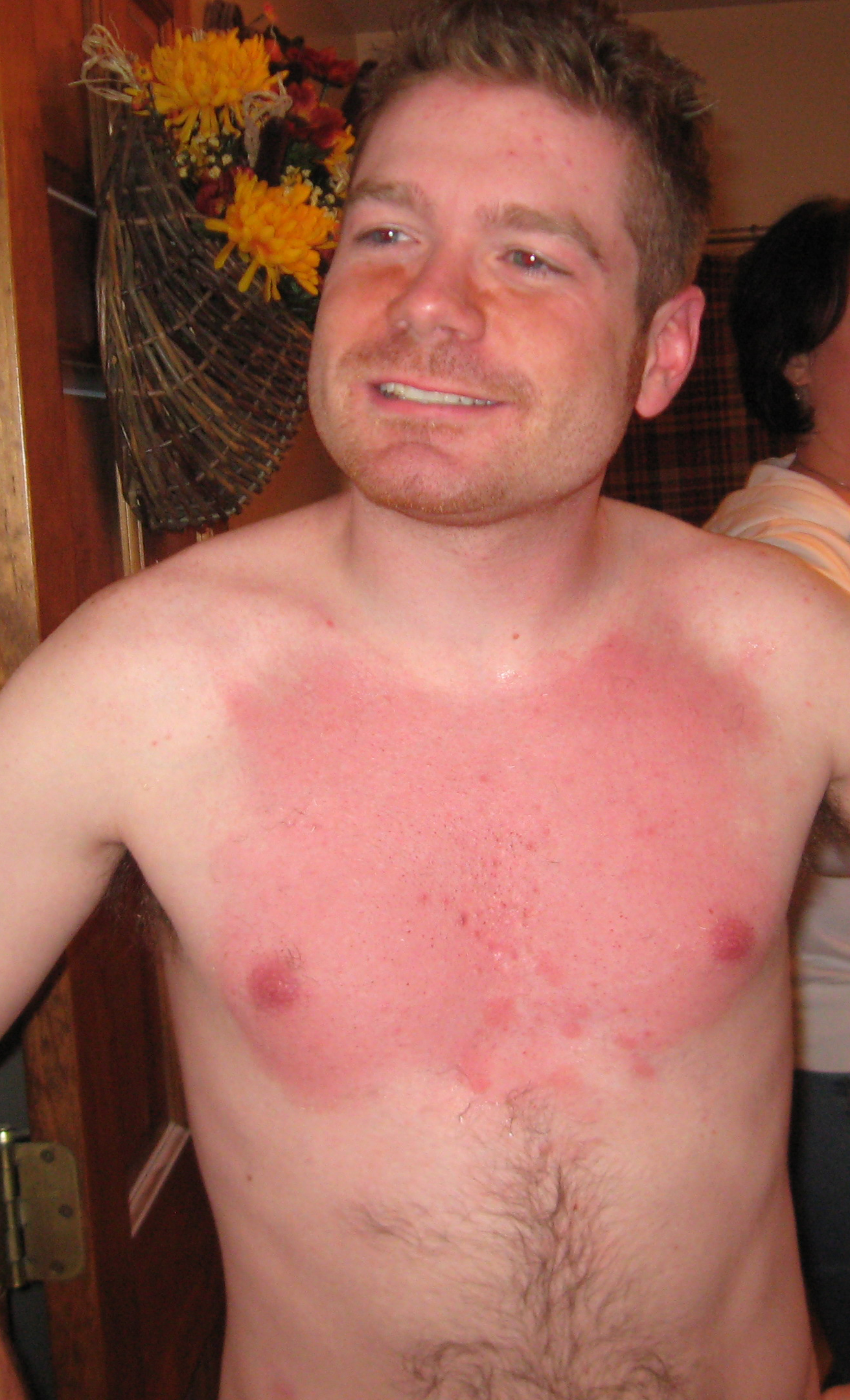 Post waxing inflammation of a males torso